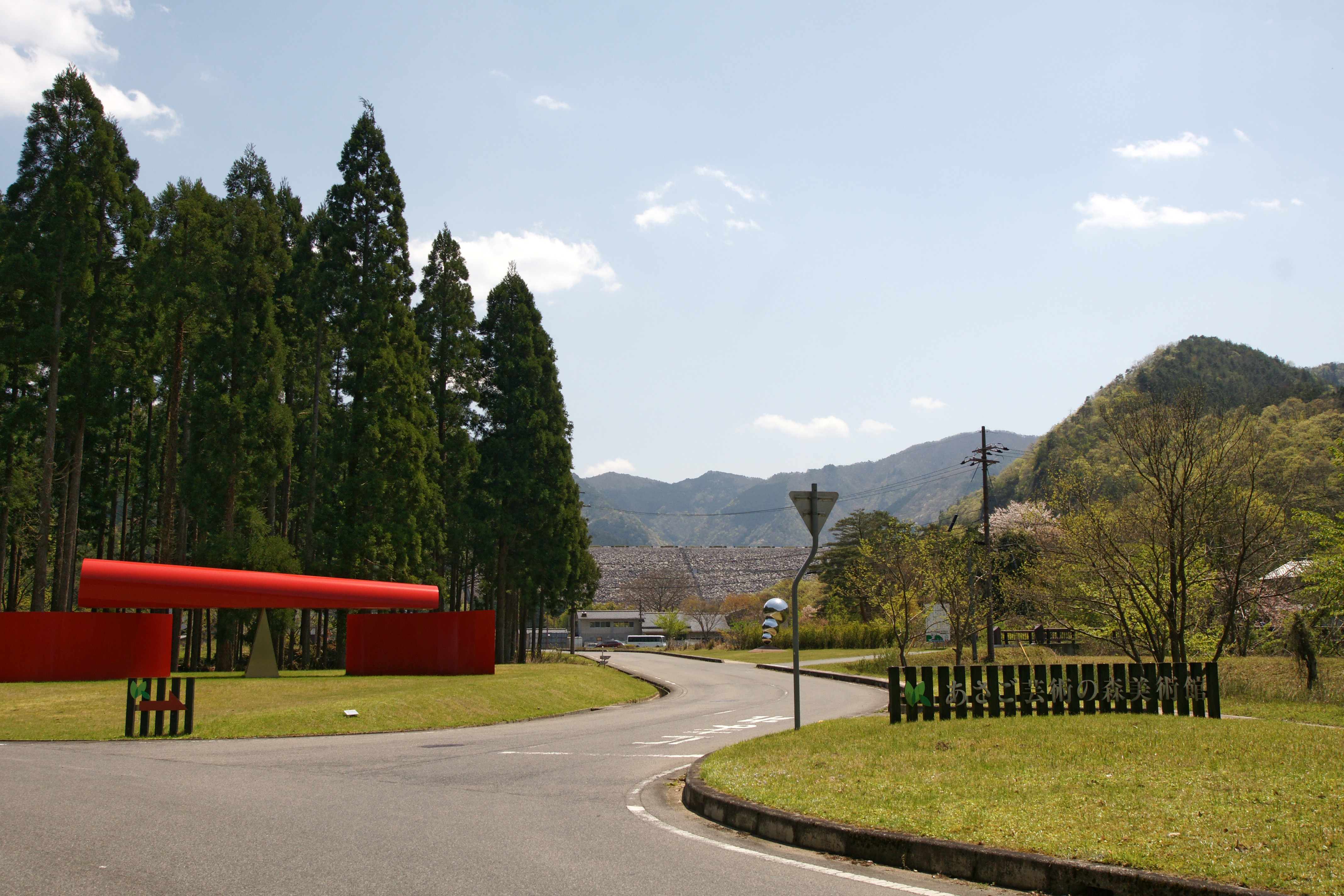 Asago Art Village in Asago, Hyogo prefecture, Japan.